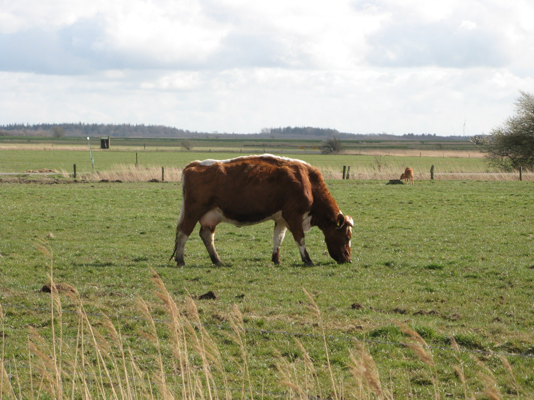 close to Seebüll Author: Dirk Ingo Franke